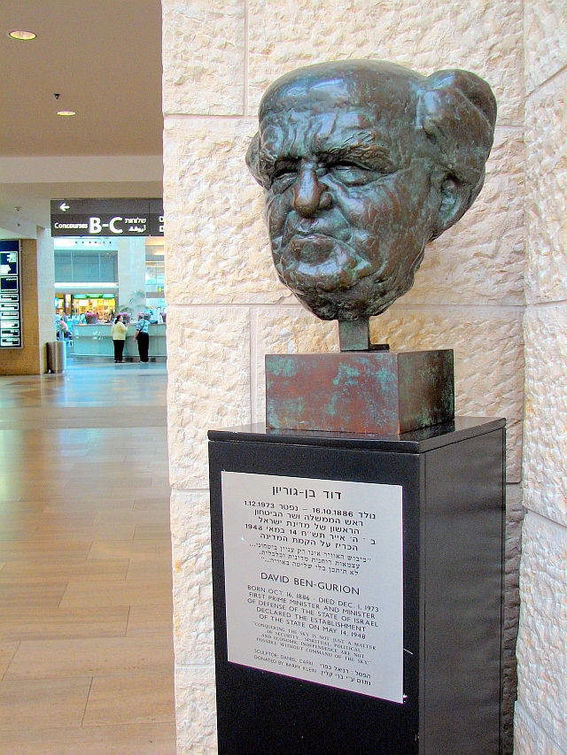 This is my own work. Photo by Gila Brand. Bust of David Ben Gurion (by sculptor Daniel Cafri), the first prime minister of the State of Israel, Ben Gurion International Airport, Israel, May 2007